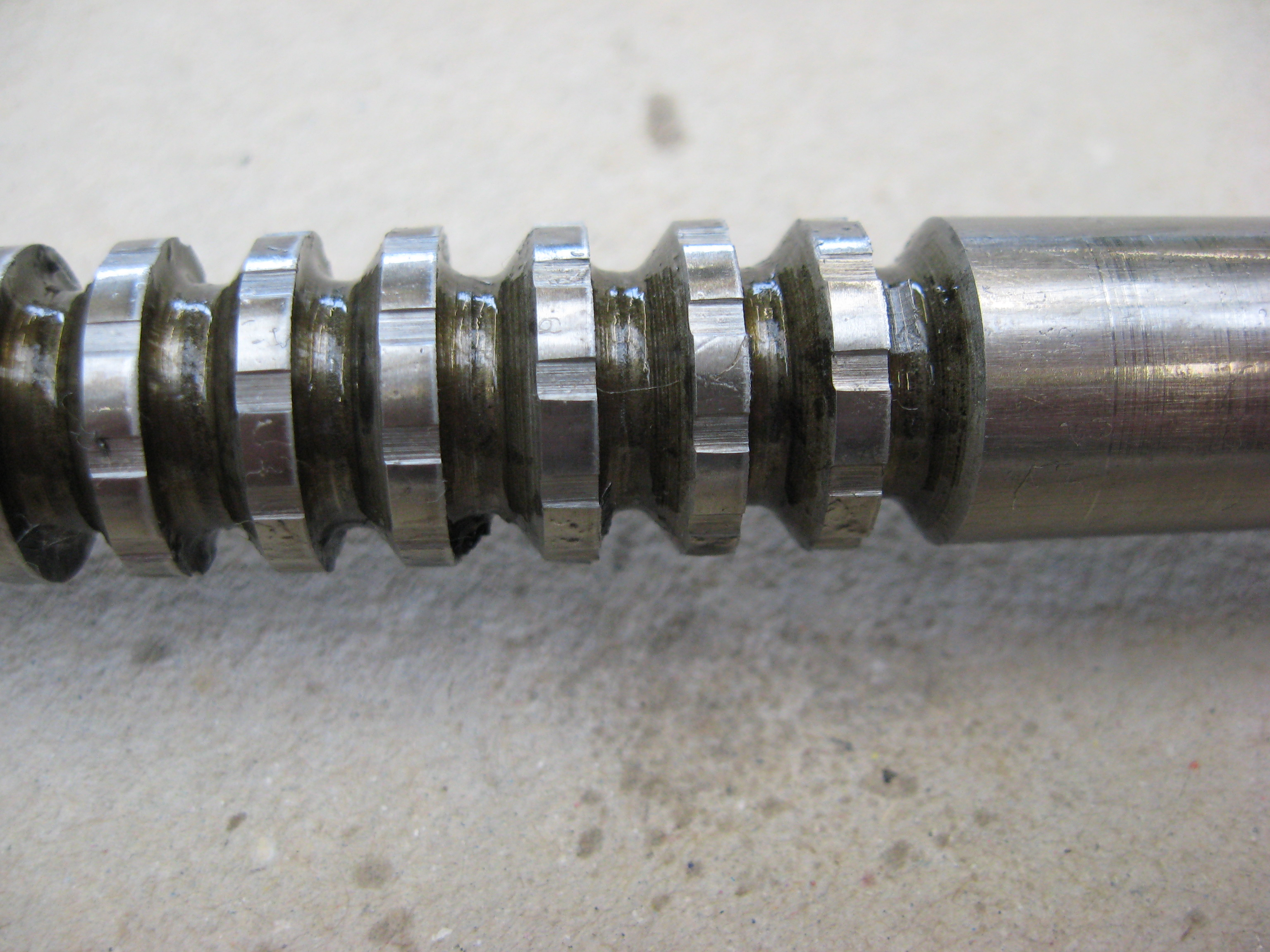 The first rough cutting teeth of a broach.